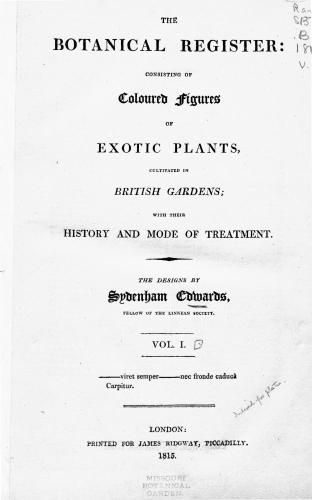 This is a scan of the frontispiece of Volume One of The Botanical Register, an illustrated horticultural magazine that ran from 1815 to 1847.